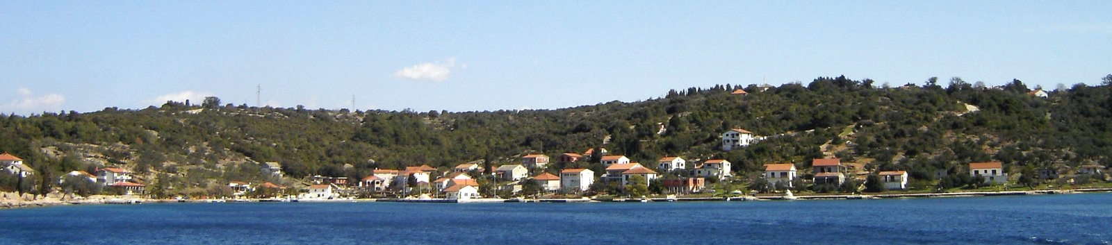 Panorama of Marnjica bay on island Rava, Croatia.